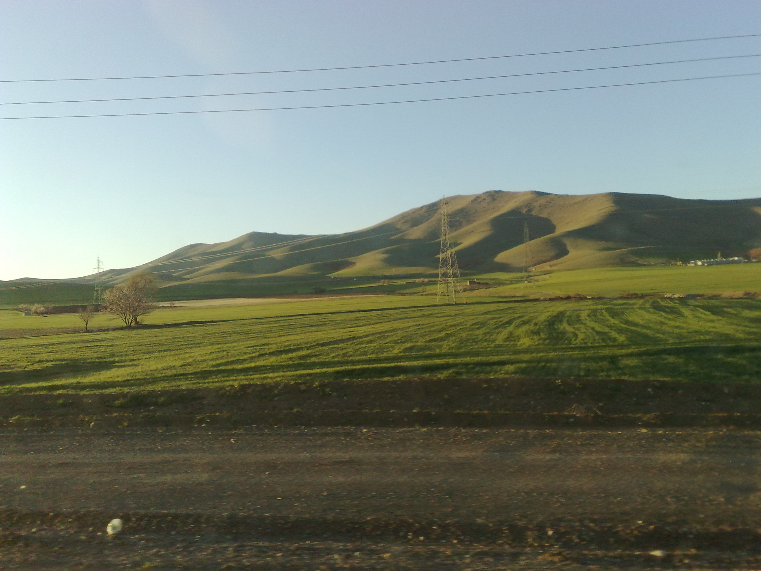 Valley of Kareze village near Saqqez city- Iran - Kurdistan